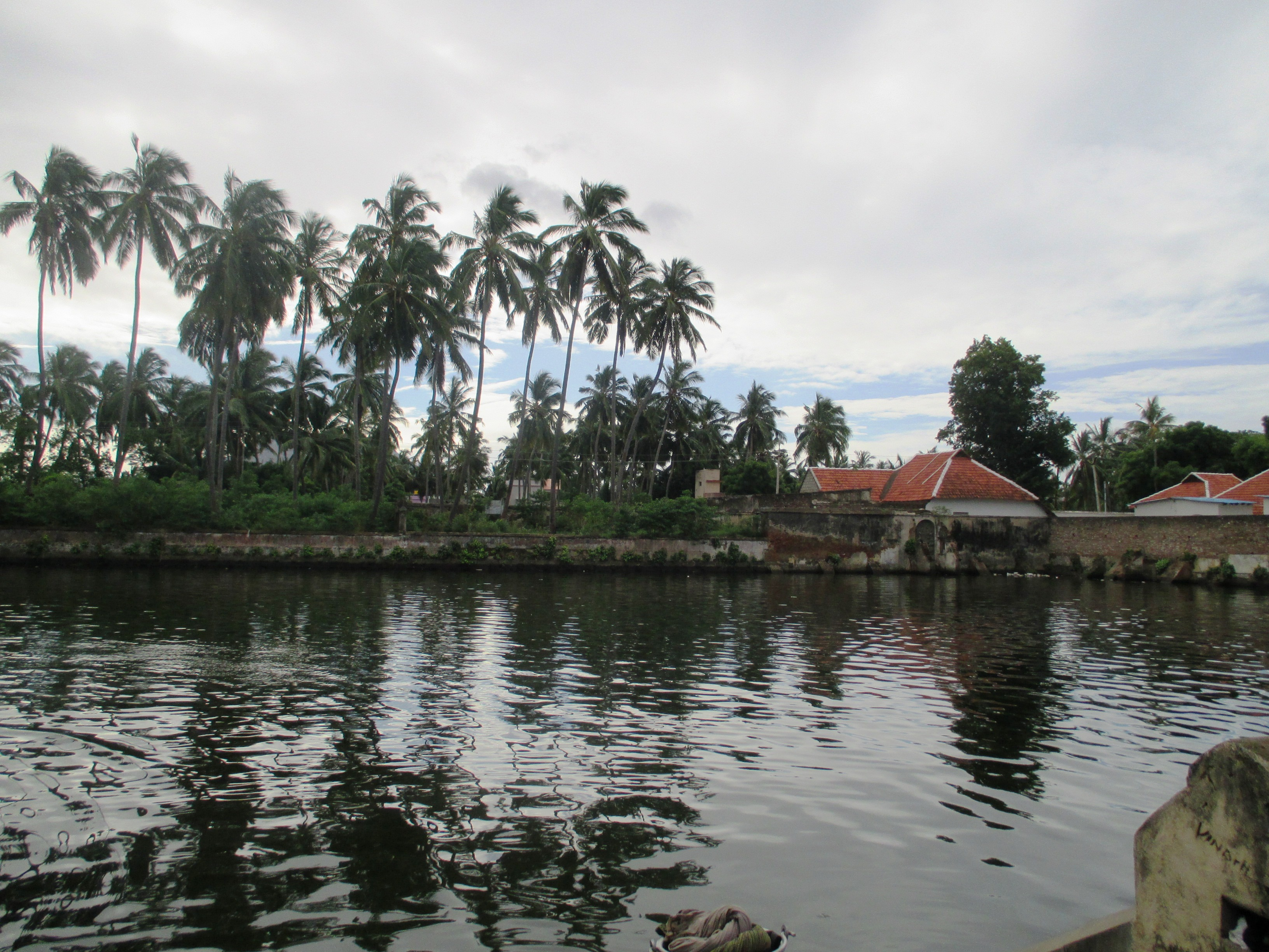 thirupathisaram